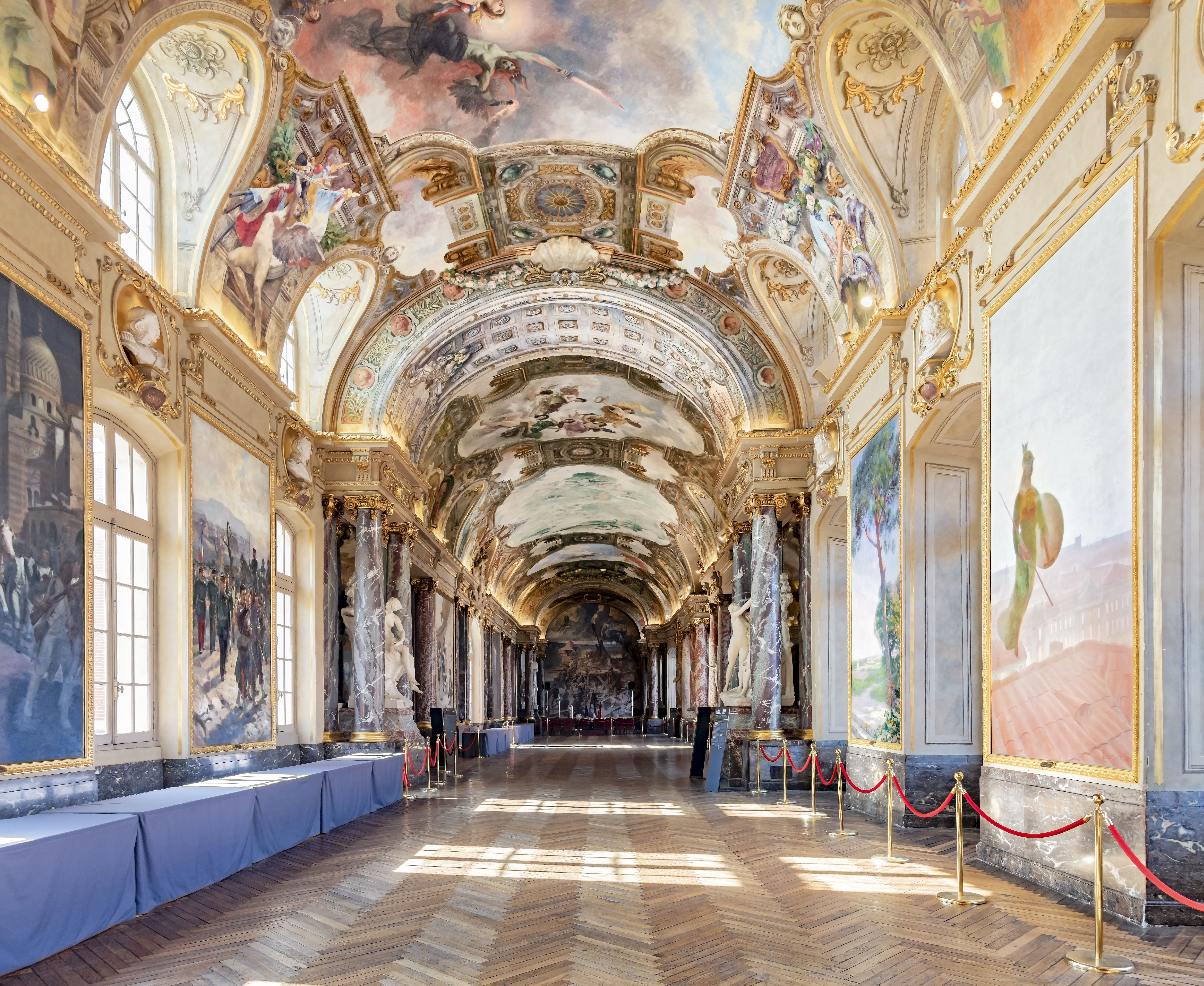 Hall of Illustrious from the north wall.